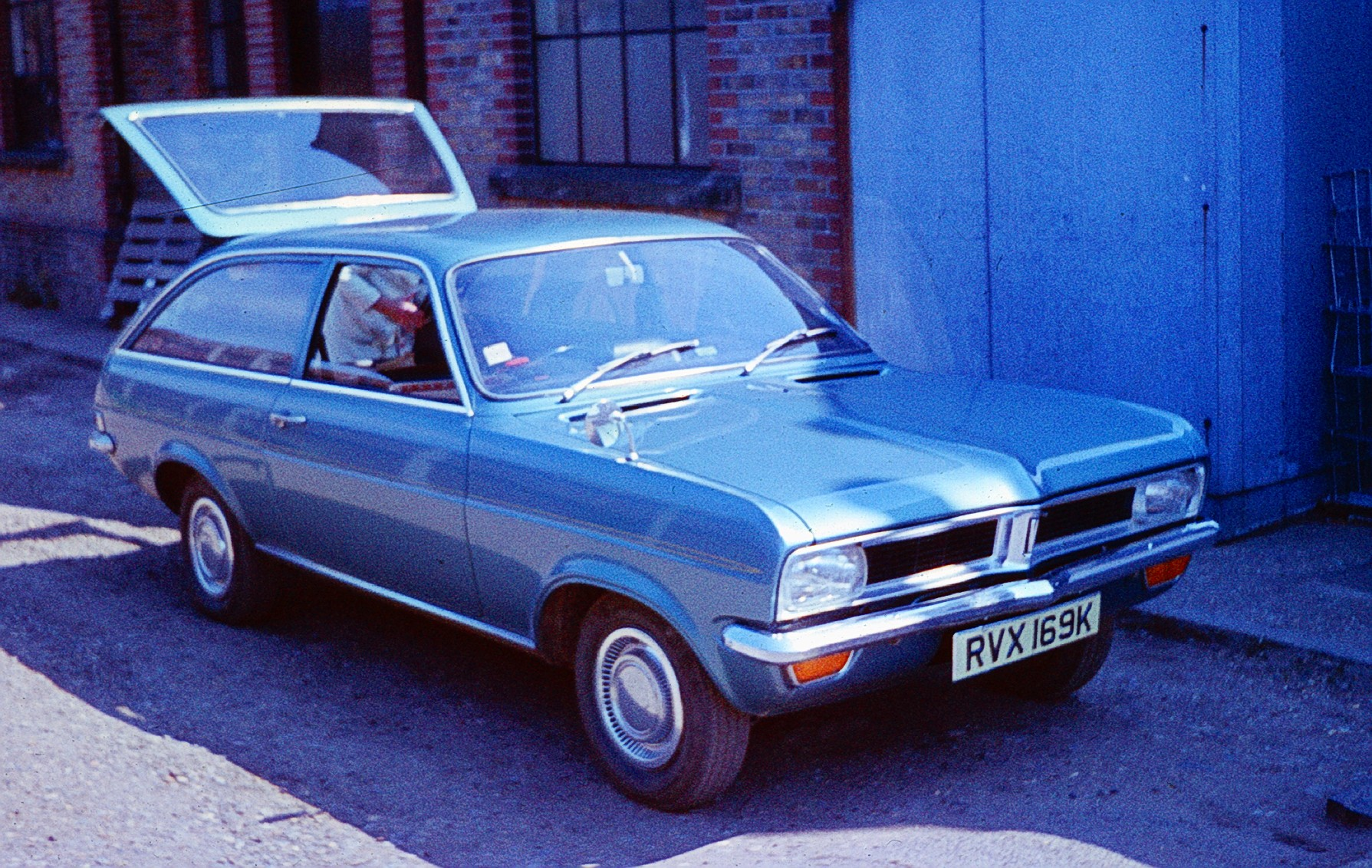 Vauxhall Viva HC outside site of former gas works in Ongar. First registered on 2 September 1972, 1256cc engine.